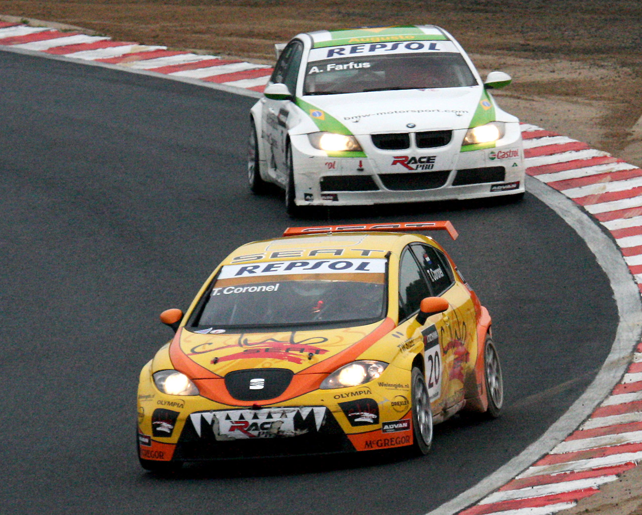 Tom Coronel (SUNRED Racing) and Augusto Farfus (BMW Team Germany) battling for win in the second race at the 2008 WTCC Race of Japan.